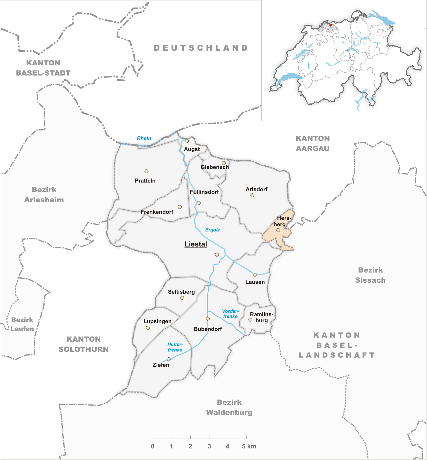 Municipality Hersberg